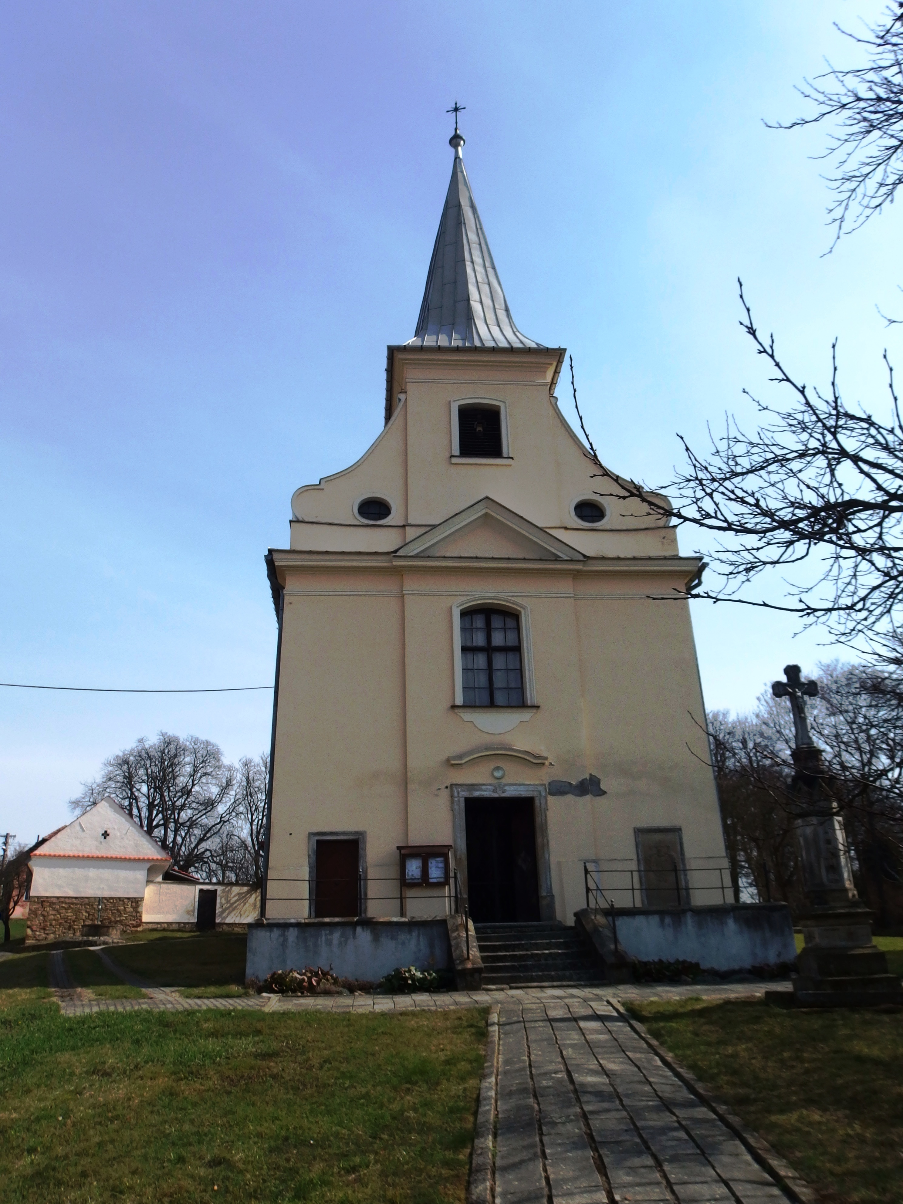 Hoštice, Kroměříž District, Czech Republic.